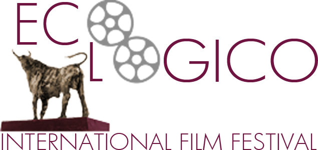 Ecologico International Film Festival official Logo